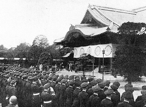 German Navy personnel visit to the Yasukuni Shrine in 1930s